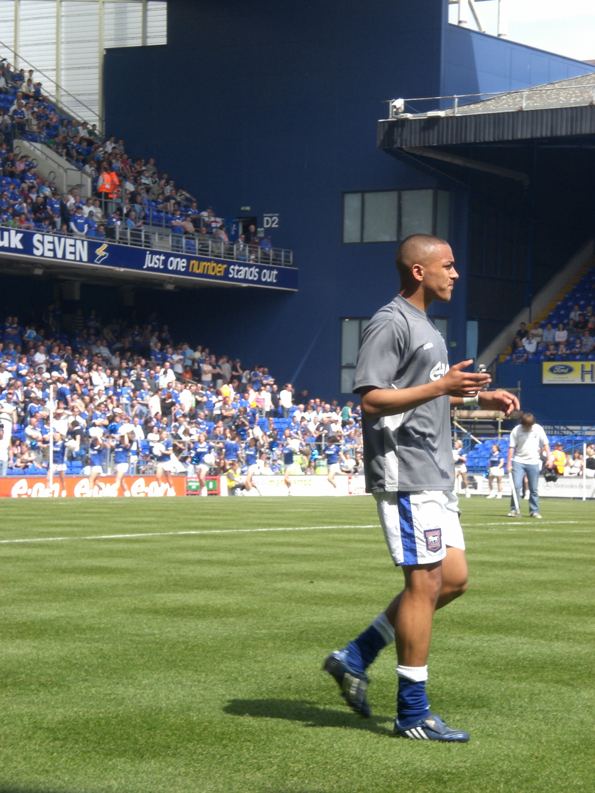 Danny Simpson playing for Ipswich Town in a match versus Hull City, 4th May 2008.